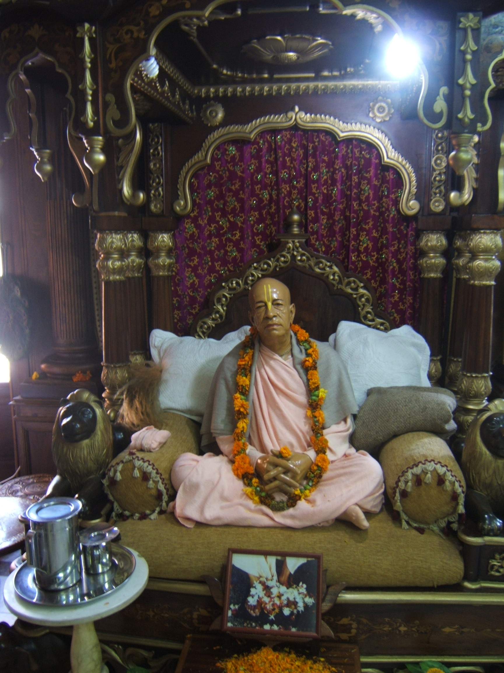 Murti of ISKCON's founder A. C. Bhaktivedanta Swami Prabhupada at Nueva Vrajamandala Hare Krishna farm in Spain